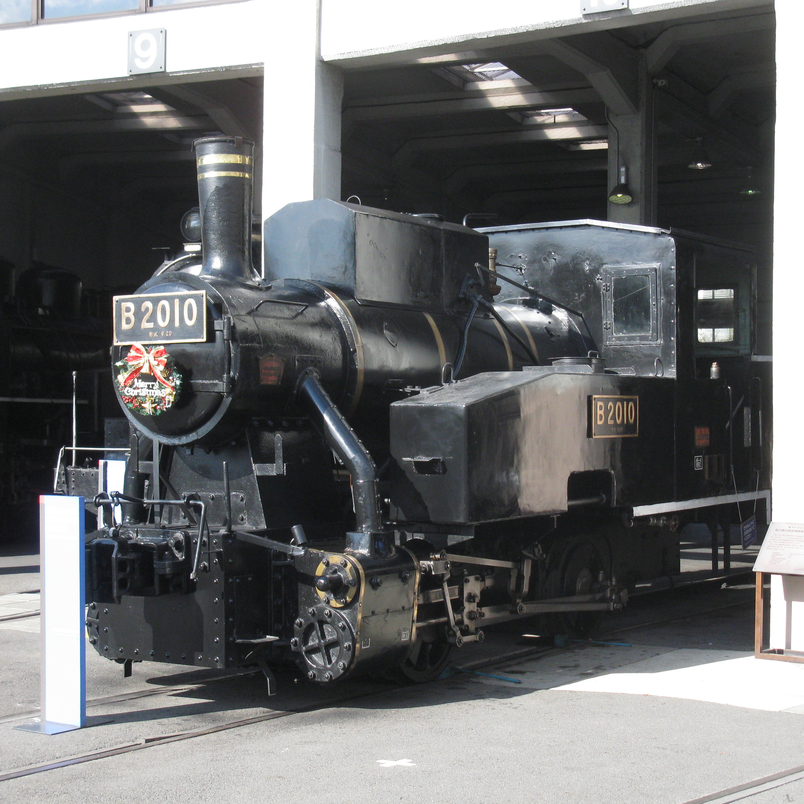 JGR Class B20 steam locomotive B20 10 preserved at the Umekoji Steam Locomotive Museum in Kyoto, Japan